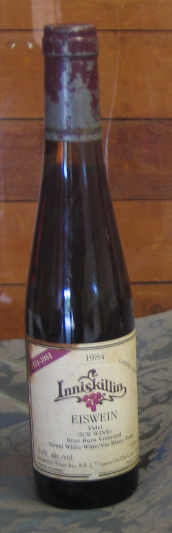 A bottle of the first Canadian ice wine produced, a 1984 Vidal by Inniskillin. The bottle is in fact labelled "Eiswein". Exhibited at Inniskillin in Niagara-on-the-Lake, Ontario, Canada